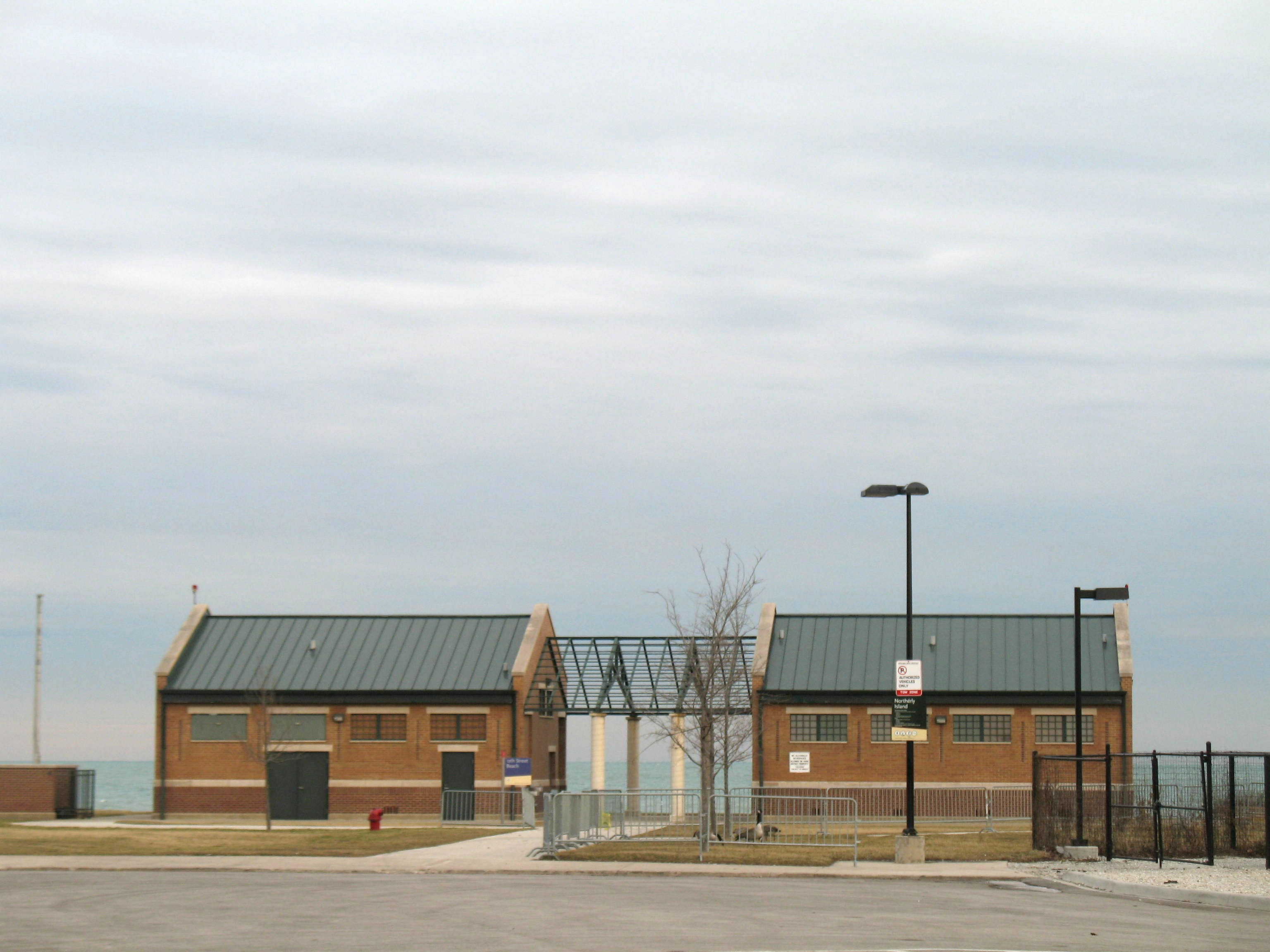 12th Street Beach House on Northerly Island